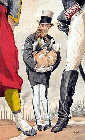 Caricature of Leopold II of Belgium. Caption read "Un roi constitutionnel".